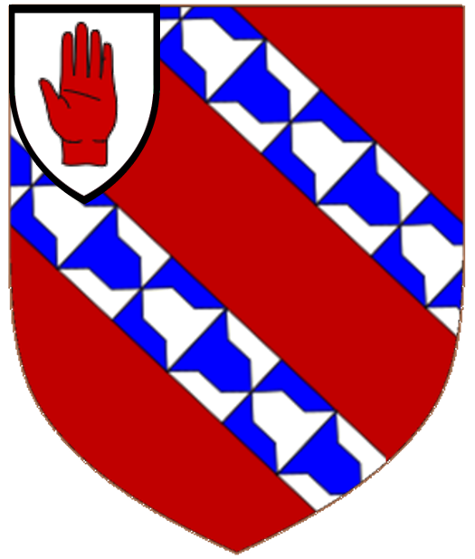 Shield of arms of the Fagge baronets of Wiston